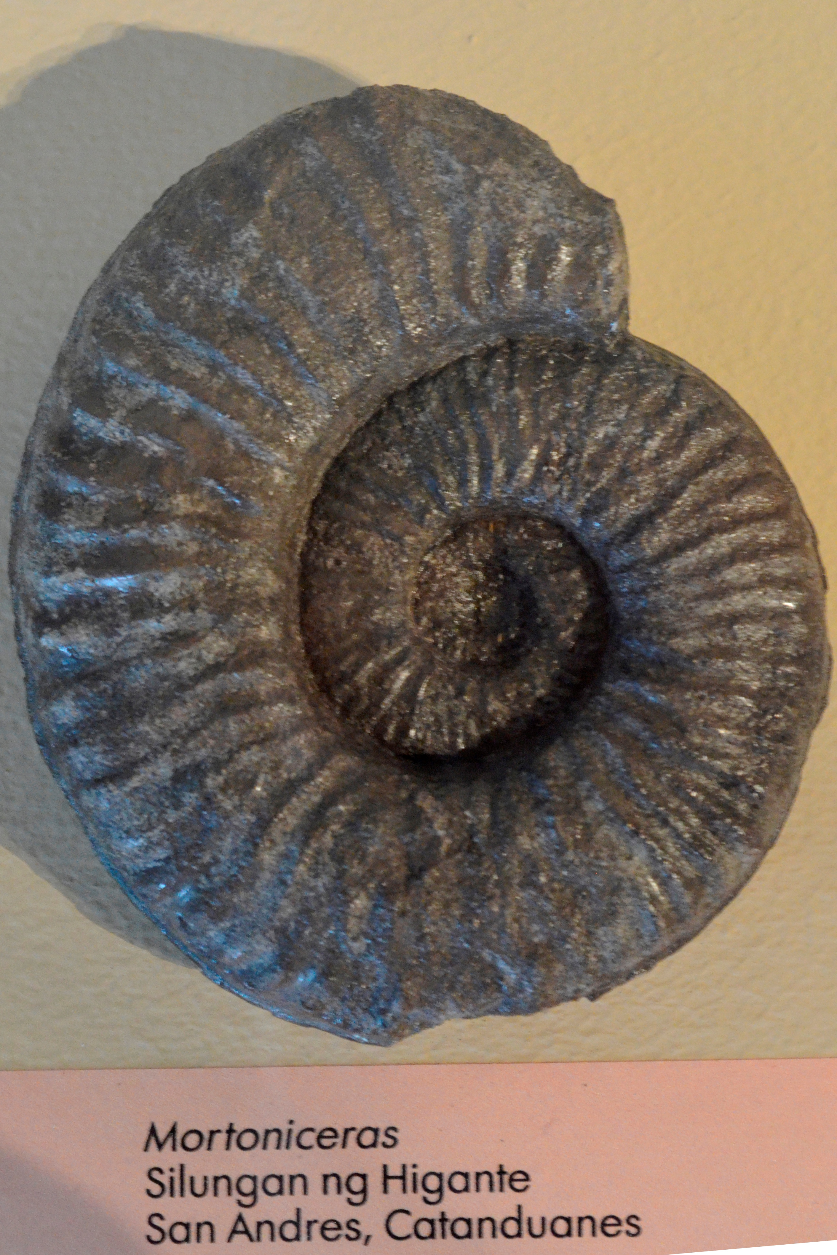 Mortoniceras fossil found at Silungan ng Higante (Shelter of the Giants), San Andres, Catanduanes, Philippines.Tagalog: Posil na Mortiniceras natagpuan sa Silungan ng Hugante, San Andres, Catanduanes, Filipinas.